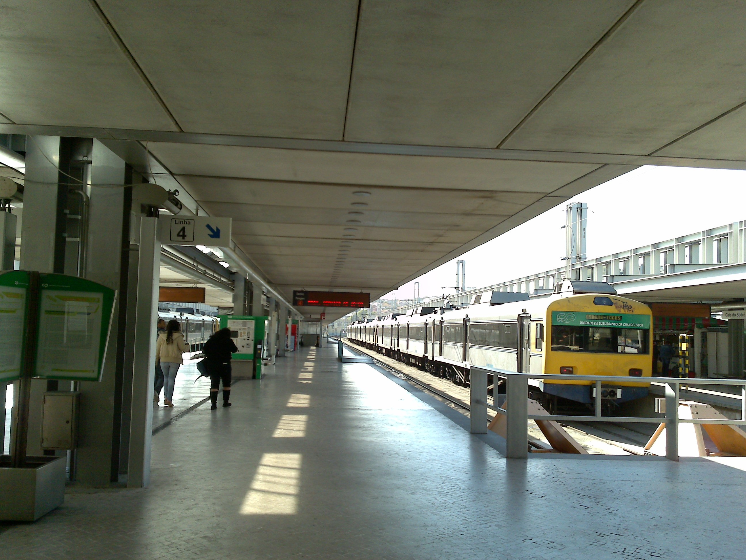 Portuguese train type 3150/3250 in Cais do Sodré train station, Lisbon, Portugal, in March 2009.